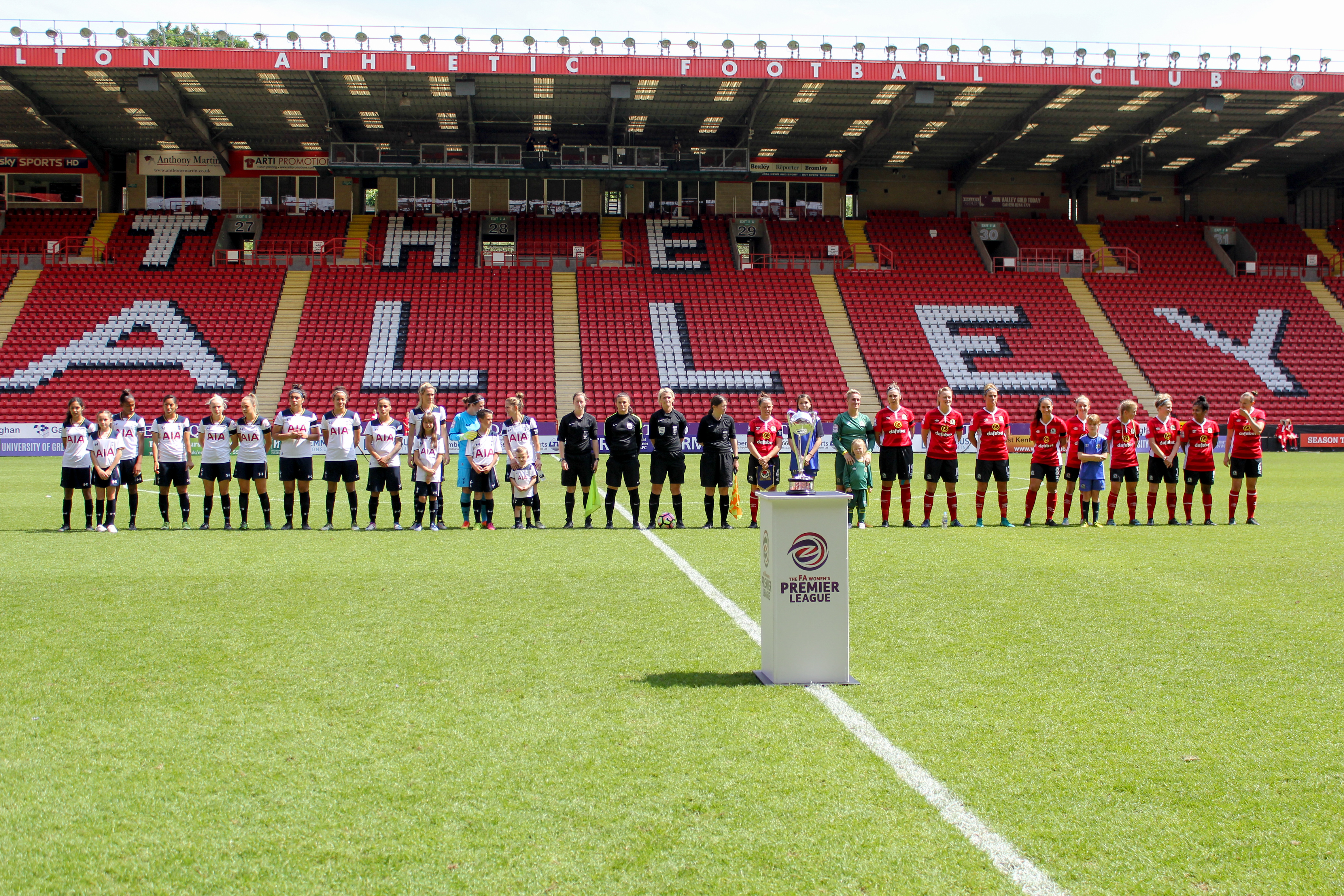 Tottenham Hotspur LFC v Blackburn Rovers LFC, 28 May 2017 – starting line-up, referees, and player escorts upstanding for the national anthem